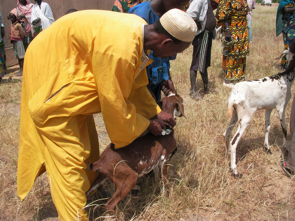 Mamane giving a shot prior to the goat being distributed in the loan program.